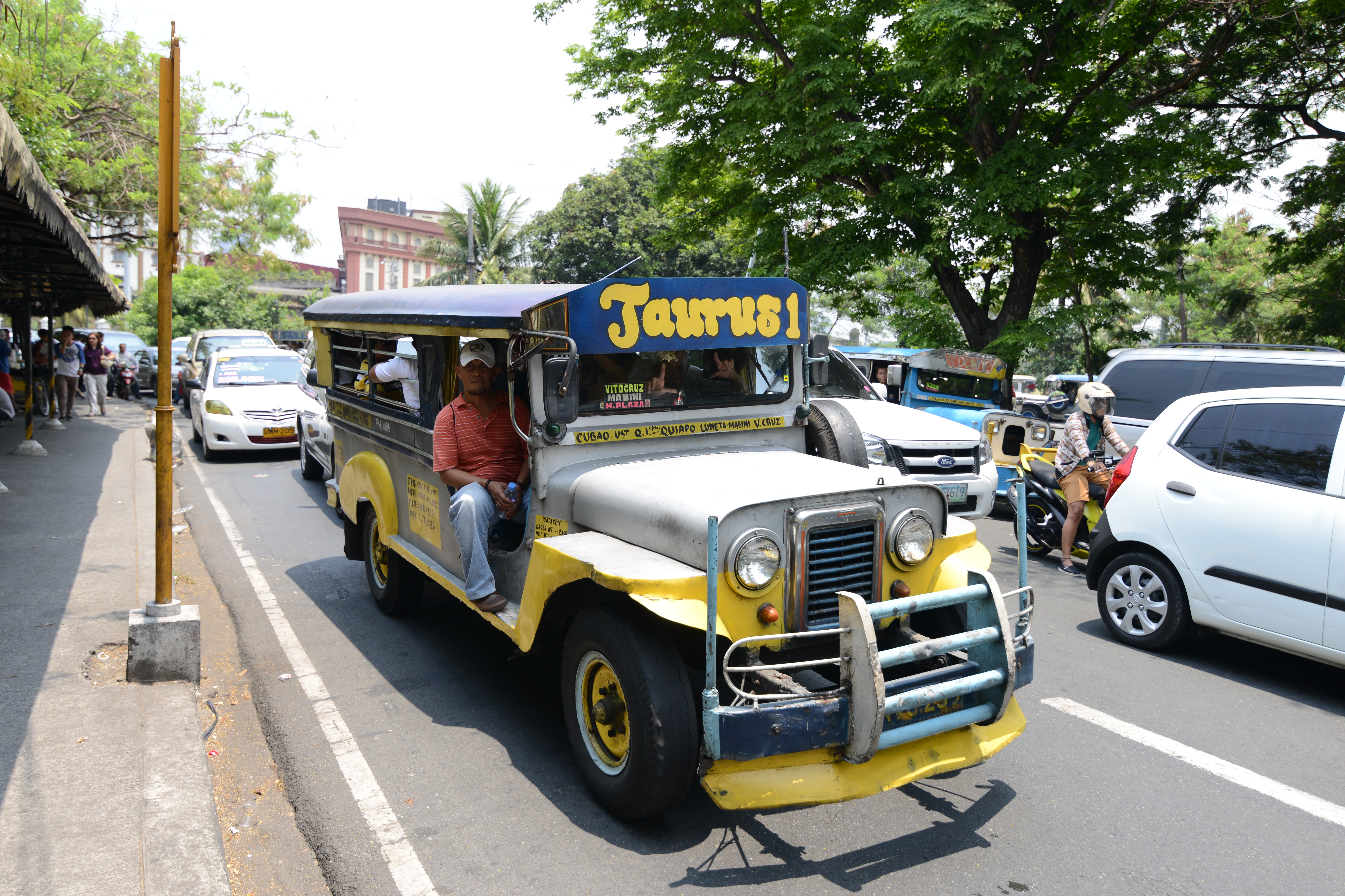 Jeepneys are the most popular means of public transportation in the Philippines. They are known for their crowded seating and kitsch decorations, which have become a ubiquitous symbol of Philippine culture and art. A Sarao jeepney was exhibited at the Philippine pavilion at the 1964 New York World's Fair as a national image for the Filipinos. Jeepneys were originally made from U.S. military jeeps left over from World War II. The word jeepney is a portmanteau word – some sources consider it a combination of "jeep" and "jitney", while other sources say "jeep" and "knee", because the passengers sit in very close proximity to each other. While most jeepneys are used as public utility vehicles, those used as personal vehicles have their rear doors attached with "For family use" or "Private" sign painted on them to alert commuters. Exceptions to this are jeepneys traversing expressways, where rear doors are mandatory, and at times, mechanically rigged to be controlled from the driver side. Jeepneys are used less often for commercial or institutional use